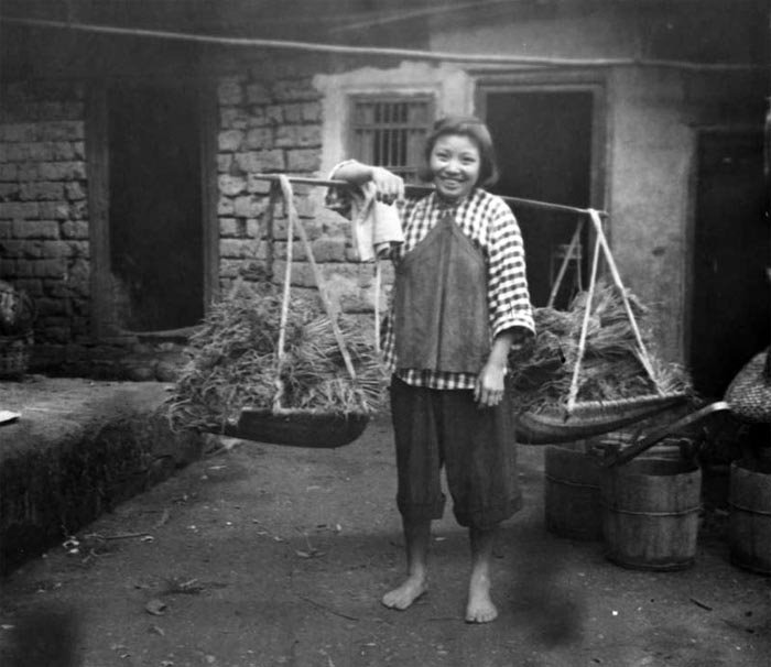 A female farmer from south china in the 1930s